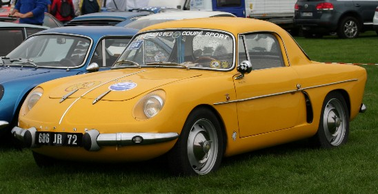 Alpine A108 Coupe Sport 1960